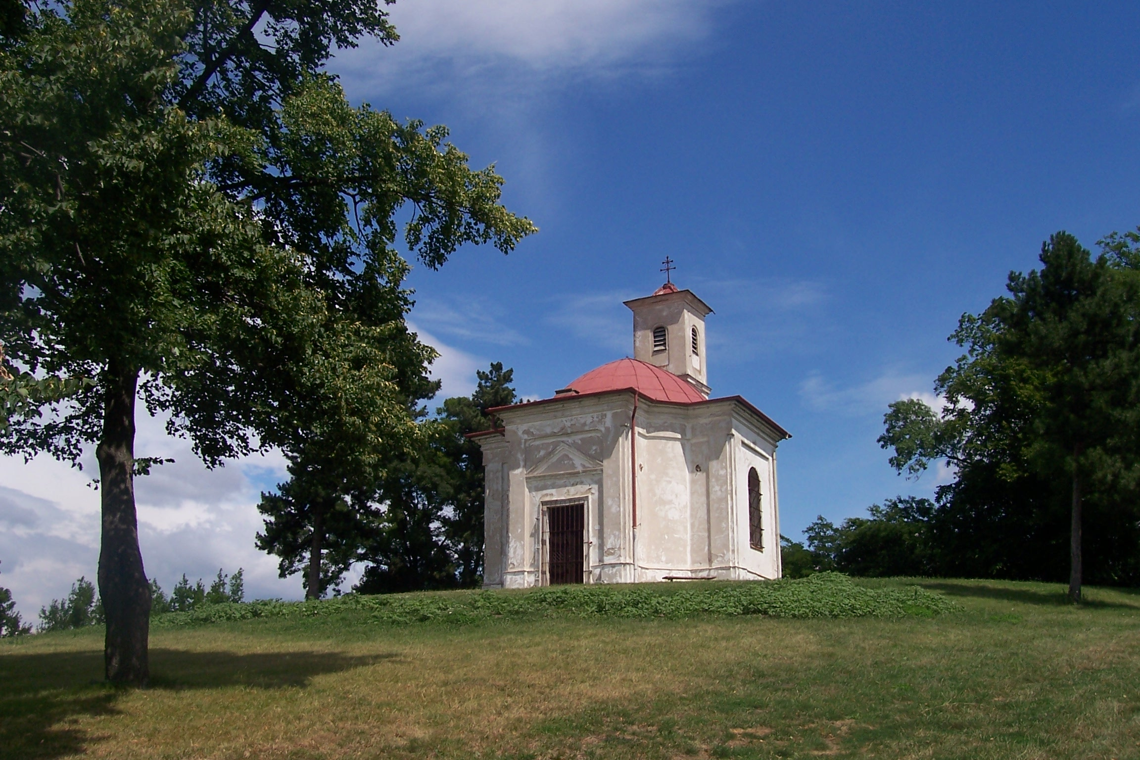 Slavkov u Brna in Vyškov District, Czech Republic. St.-Urban-chapel above the town.